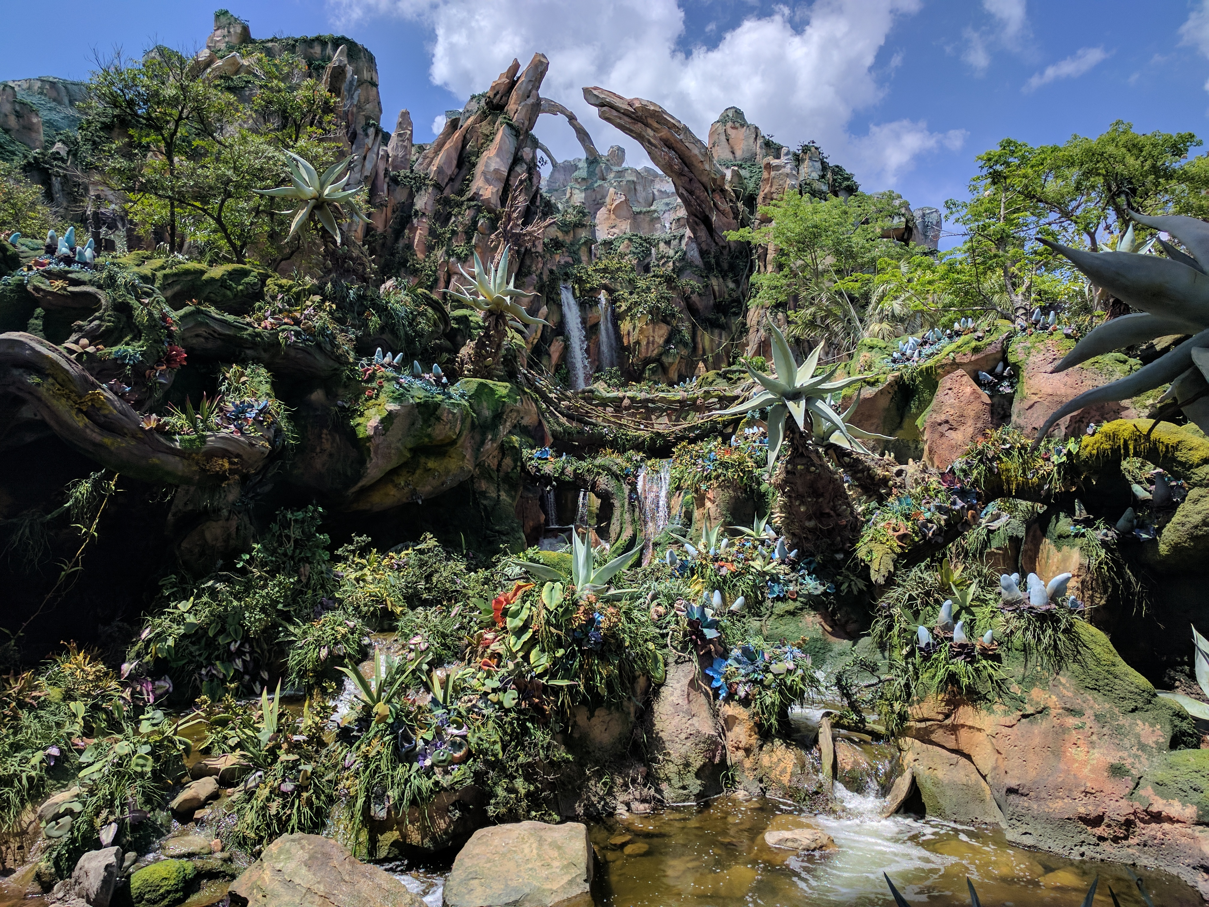 Cast Pongu (Party) at Pandora-The World of Avatar